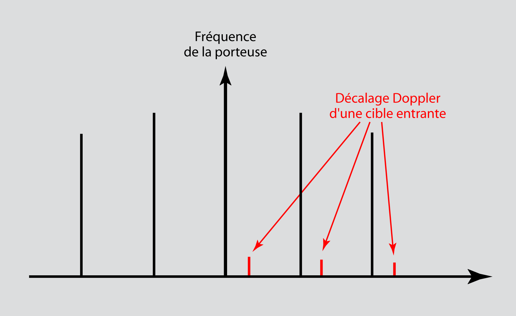 Frequency Spectrum of a radar signal, including the echo from a moving target (after TJC - English WP).